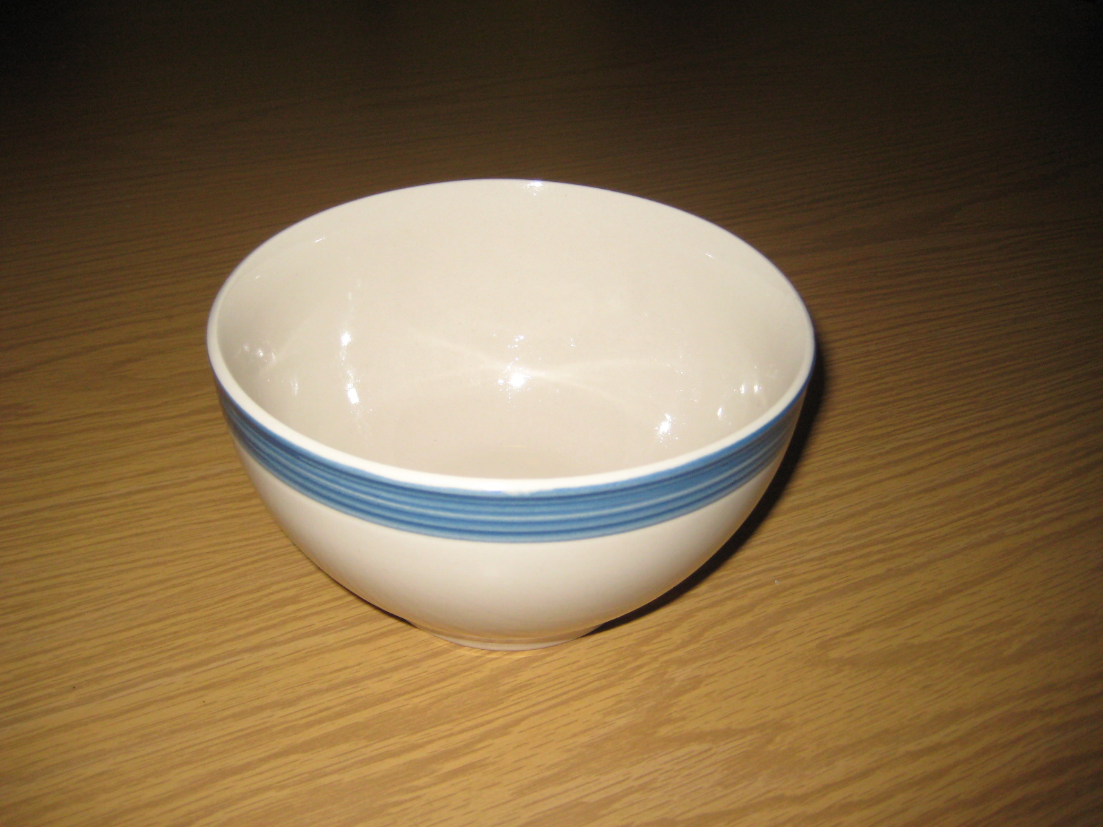 A simple ceramic bowl with a blue glazed trim.